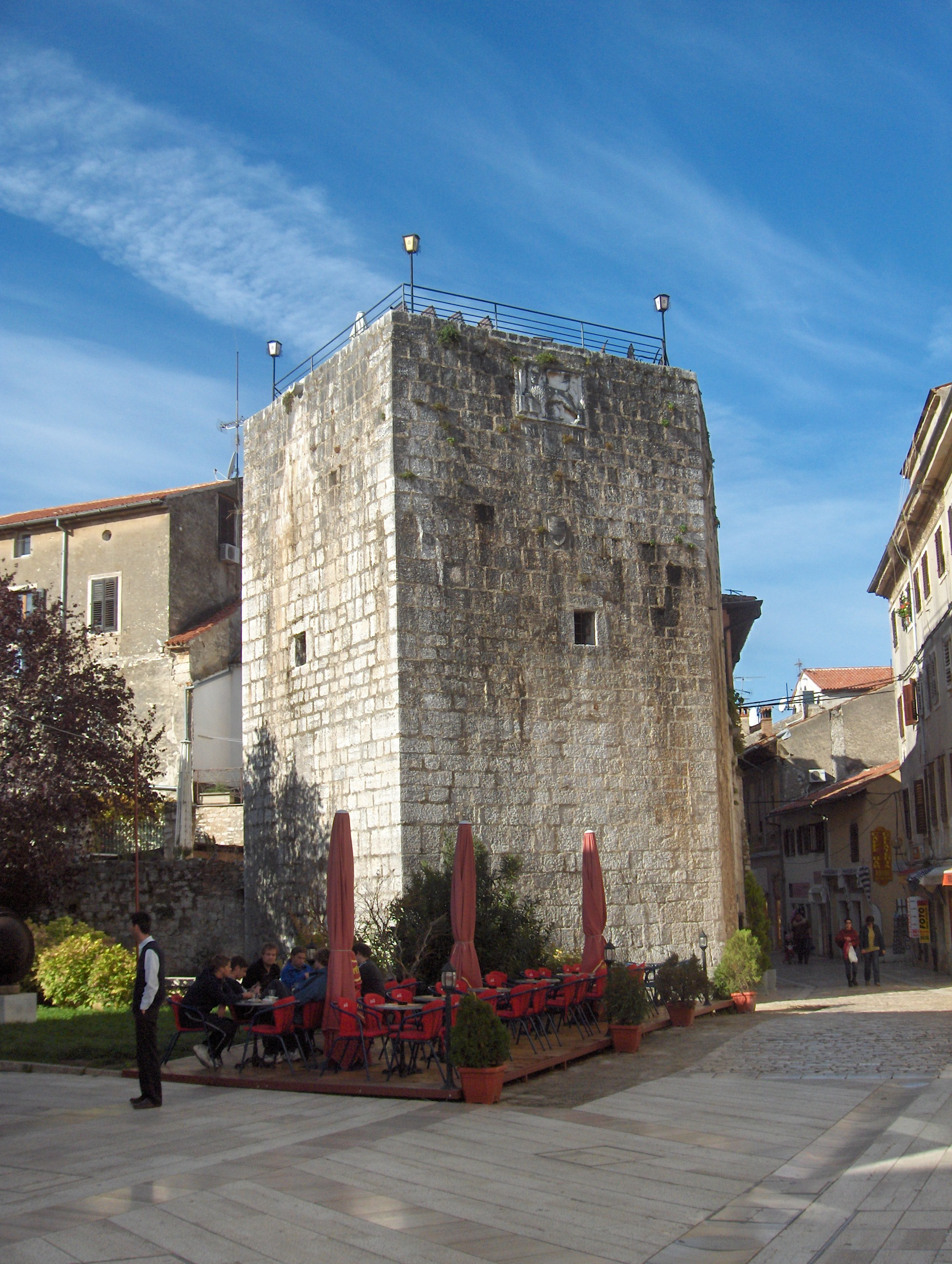 Pentagonal tower (1447) in Gothic style, at the beginning of the Decamanus, Poreć, Croatia